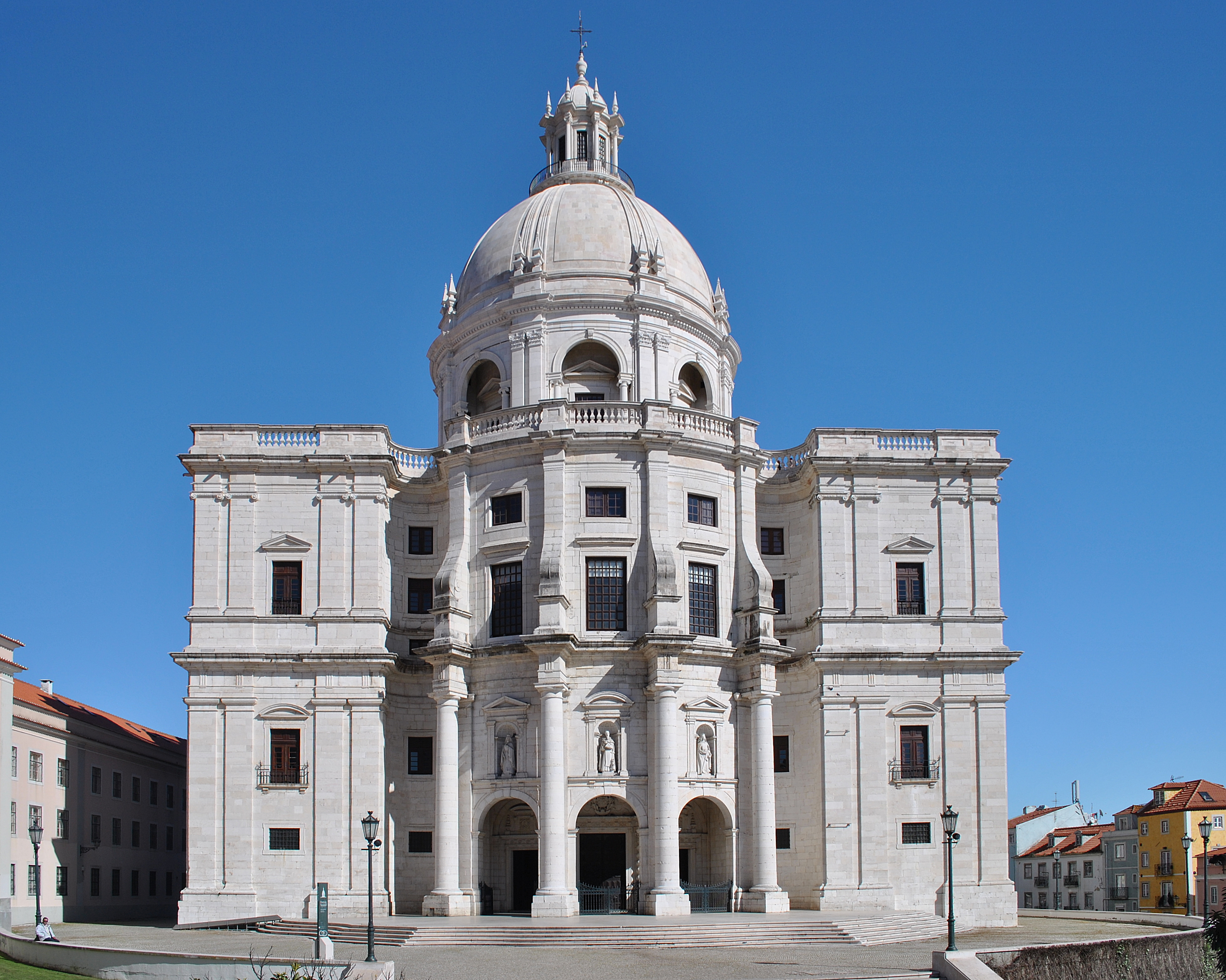 The National Pantheon (former Church of Santa Engrácia) in Lisbon.